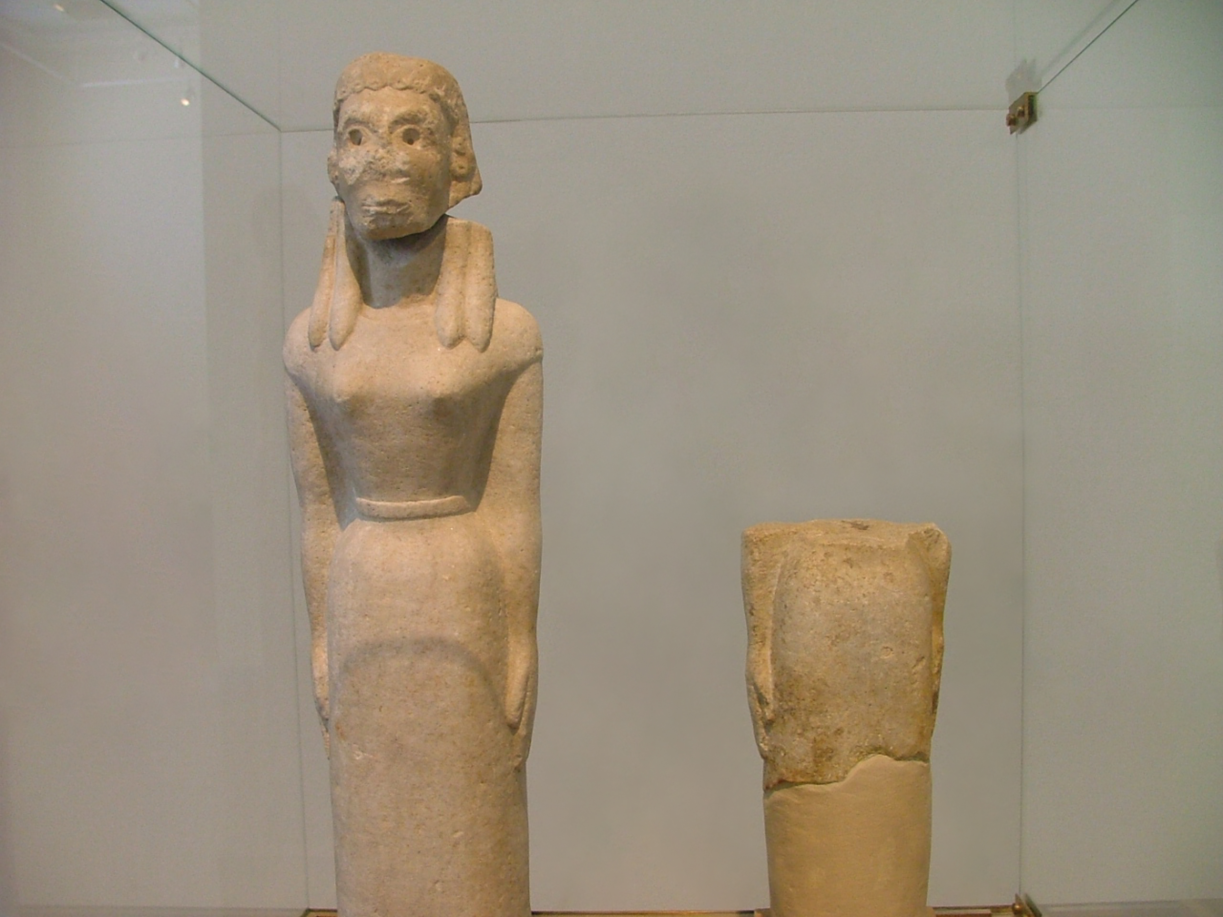 Female statuette and fragment of a second one. Pentelic marble. Found in the sanctuary of Ptoan Apollo in Boeotia. The two statuettes functioned, along with a similar third one, as supports for a perrirhanterion. Perrirhanteria were shallow basins that rested on three or four female statuettes which usually held lions on the leash or stepped on them. This statuary type originated from the East (Syria, Cyprus). Boeotian work. About the end of the 7th century B.C.